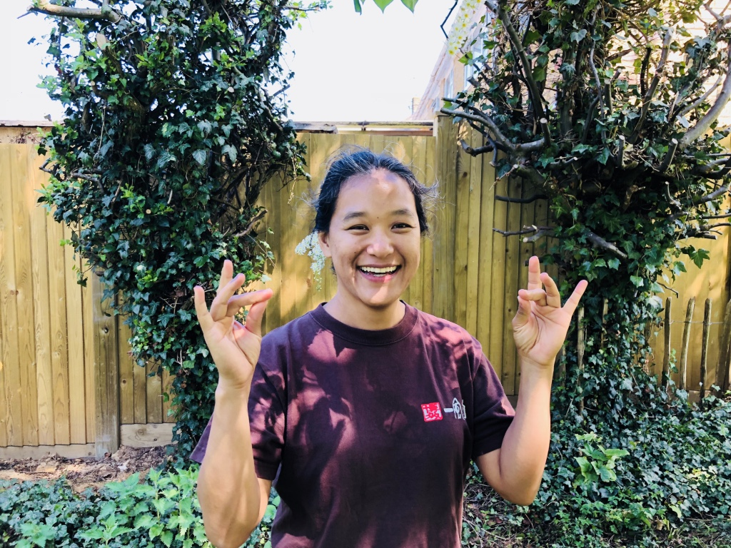 Tania smiling